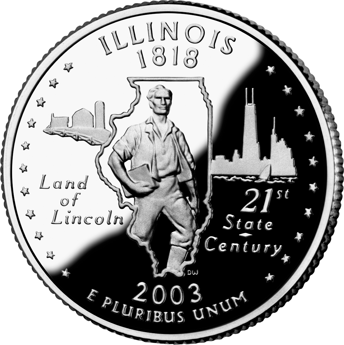 Removed background, cropped, and converted to PNG with Macromedia Fireworks. The image of Lincoln is derivative of "The Resolute Lincoln", a statue by Avard Fairbanks This image depicts a unit of currency issued by the United States of America. If Fraudulent use of this image is punishable under applicable counterfeiting laws. As listed by the United States Secret Service at money illustrations, the Counterfeit Detection Act of 1992, Public Law 102-550, in Section 411 of Title 31 of the Code of Federal Regulations (31 CFR 411), permits color illustrations of U.S. currency provided:1. The illustration is of a size less than three-fourths or more than one and one-half, in linear dimension, of each part of the item illustrated;2. The illustration is one-sided; and3. All negatives, plates, positives, digitized storage medium, graphic files, magnetic medium, optical storage devices, and any other thing used in the making of the illustration that contain an image of the illustration or any part thereof are destroyed and/or deleted or erased after their final use. Certain coins contain copyrights licensed to the U.S. Mint and owned by third parties or assigned to and owned by the U.S. Mint [1]. For the United States Mint circulating coin design use policy, see [2]; for the policy on the 50 State Quarters, see [3]. Also: COM:ART #Photograph of an old coin found on the Internet